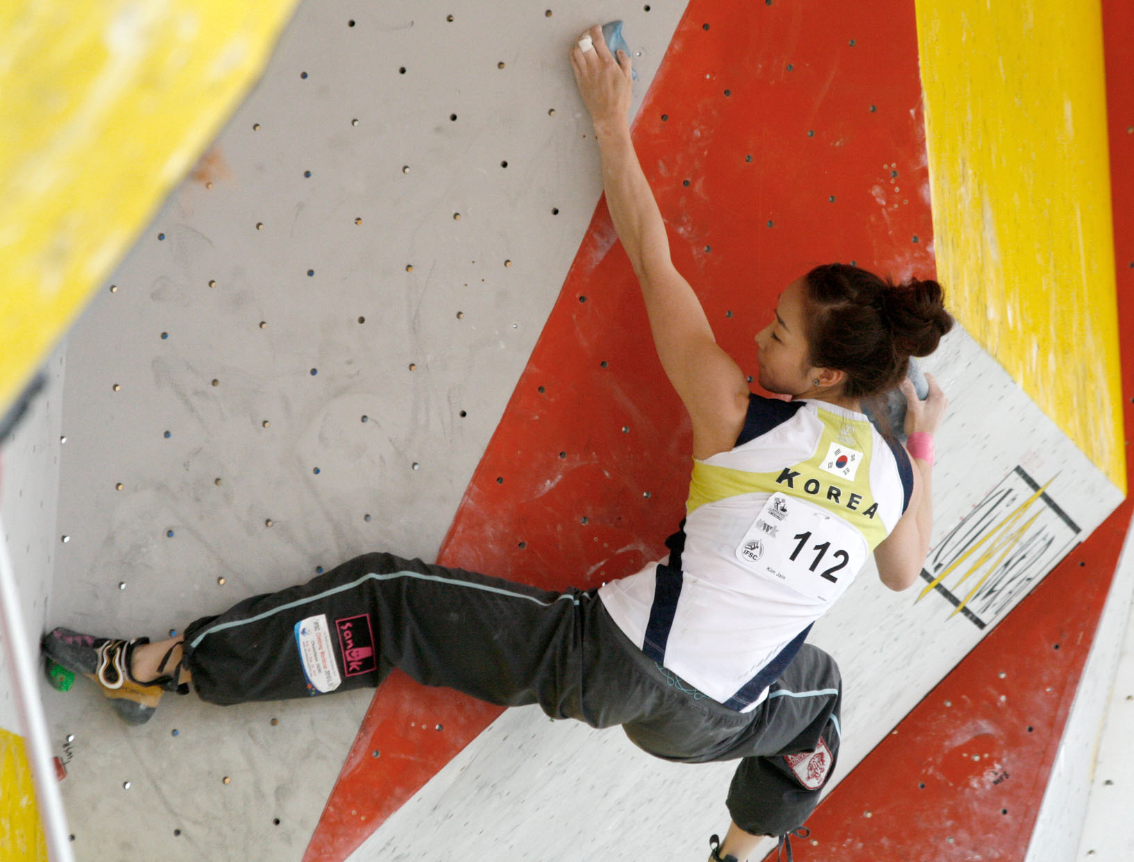 Jain Kim during the semi-finals at the IFSC Boulder Worldcup Vienna 2010.